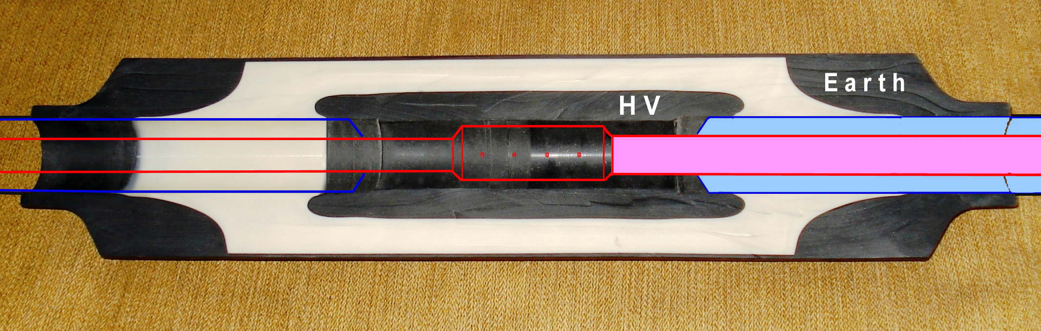 Adaption of existing Wikimedia image Bi-manchet (photographed by me) to be used in article about high voltage cable